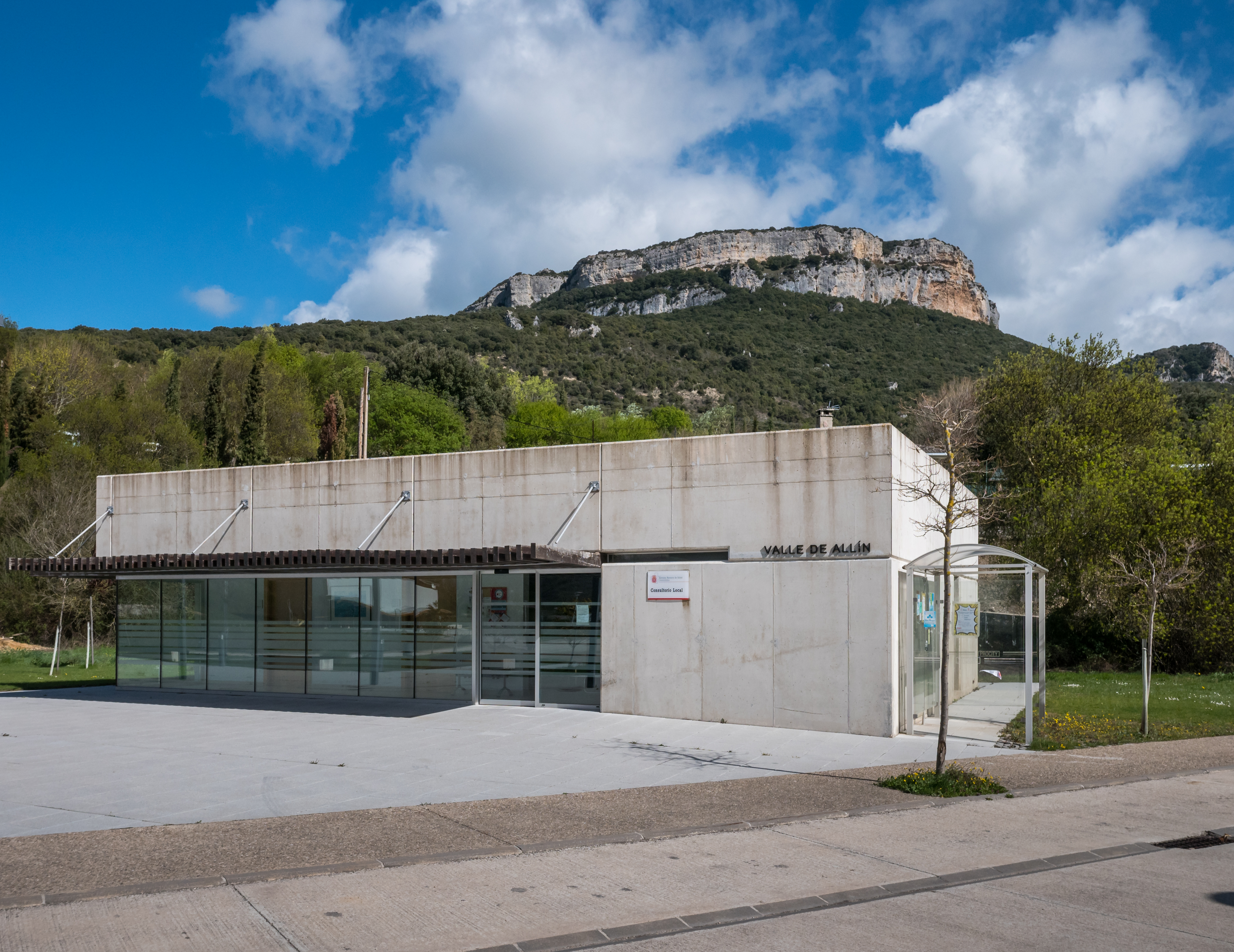 Medical centre of Allín, Navarre, Spain